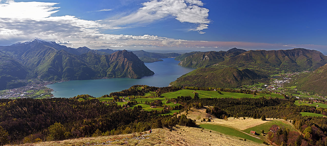 The view from Monte Colombina on the plateau of Bossico and Lake Iseo.